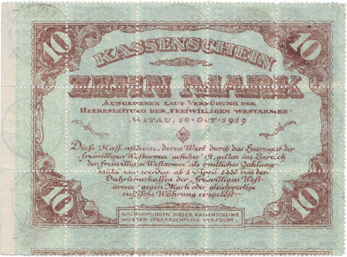 Reverse of a block of twelve 1 rouble stamps (and three empty fields) of the March 1920 issue "Return of Latgale to Mother Latvia", showing a complete 10 Mark banknote of the Bermondt-Avalov Army. The Latvians used a.o. unfinished banknotes for the production of postage stamps.